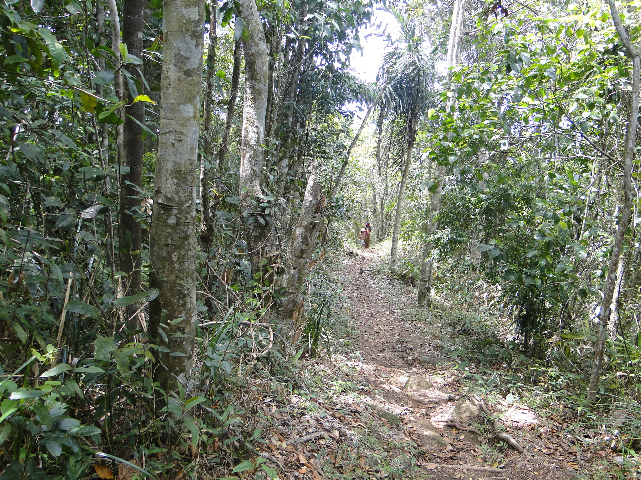 Interior of a tropical forest in Bahia, Brazil.